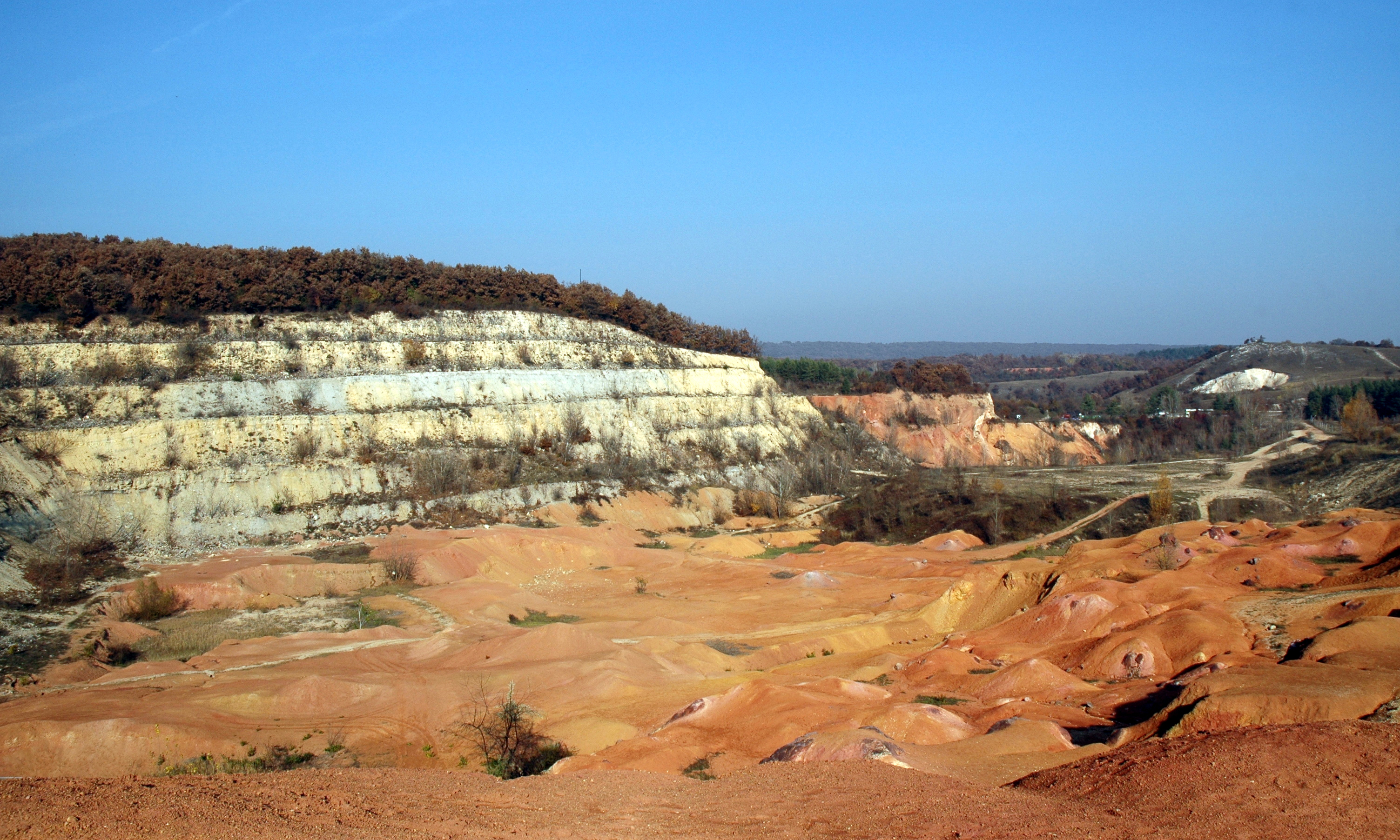 Depleted bauxite mine in Gánt (Hungary)